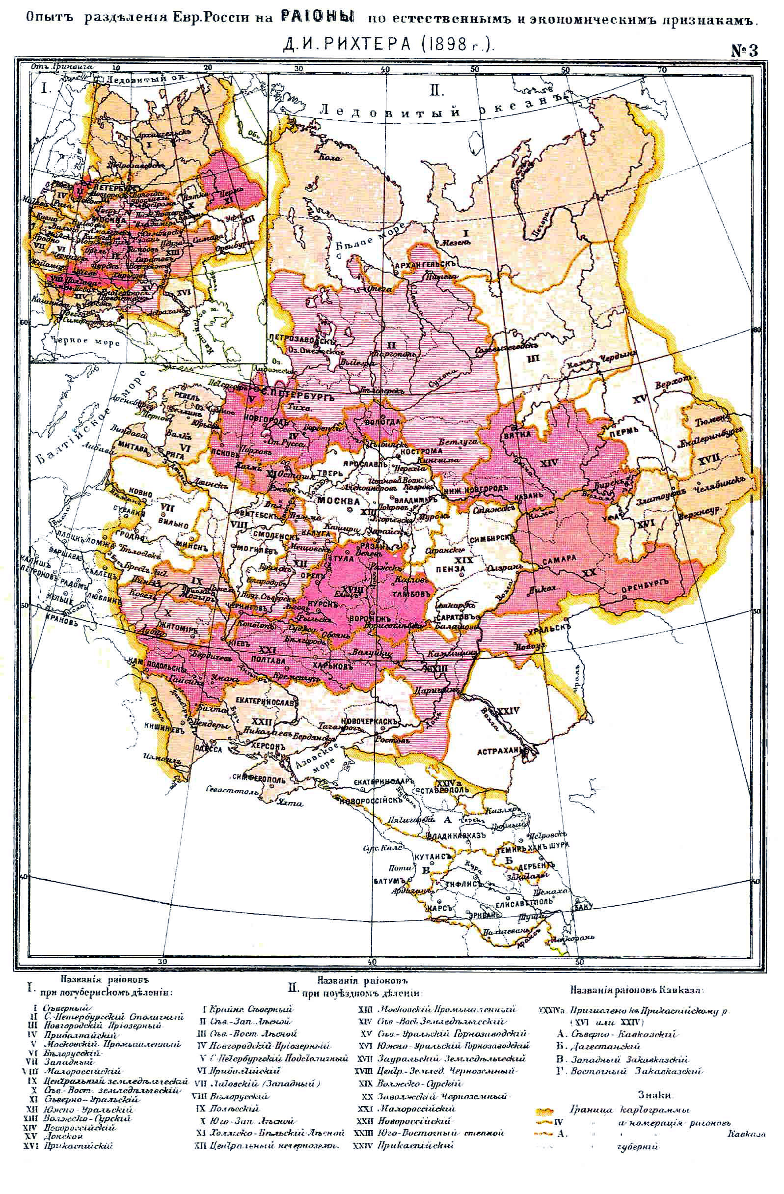 Illustration from Brockhaus and Efron Encyclopedic Dictionary (1890—1907)